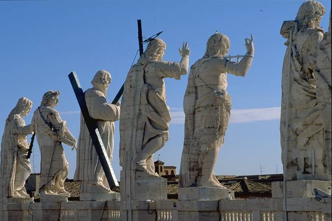 Figures on top of St. Peter's Basilica